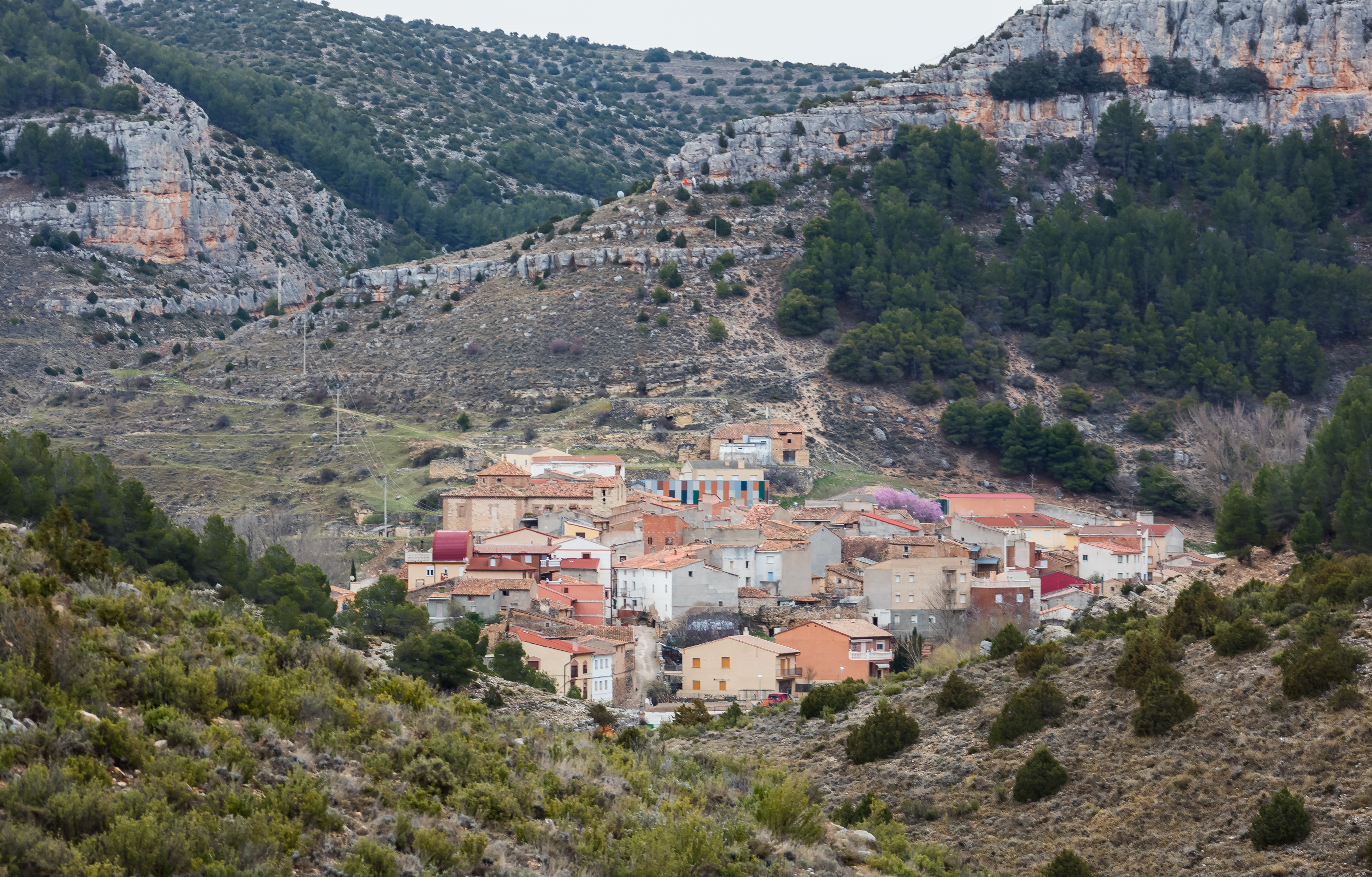 Calmarza, Zaragoza, Spain